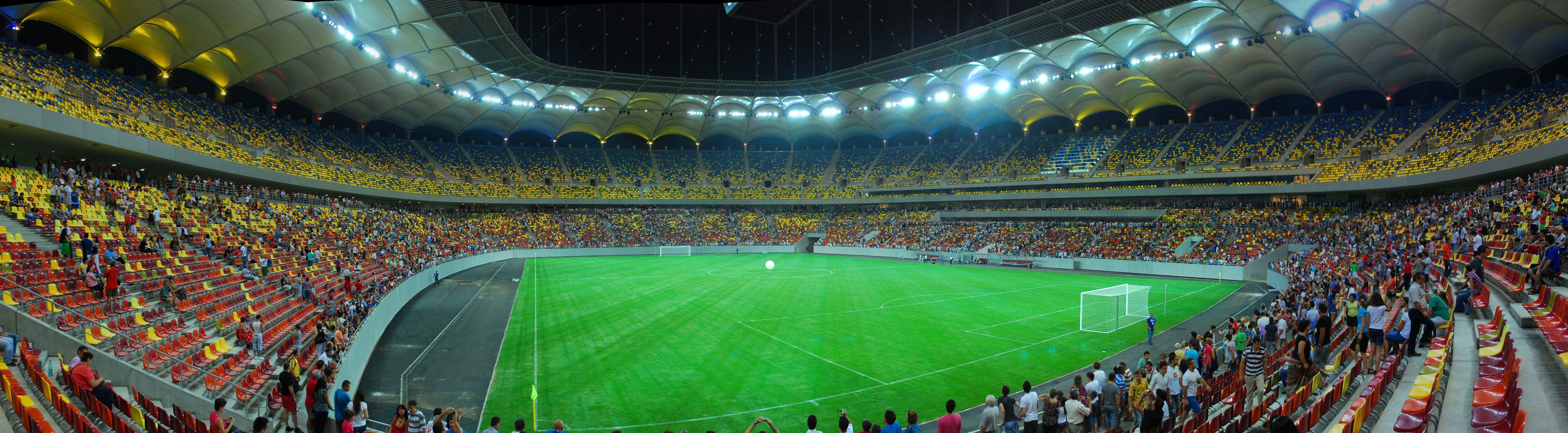 Panoramic view of the National Arena in Bucharest,Romania, on the night of its opening